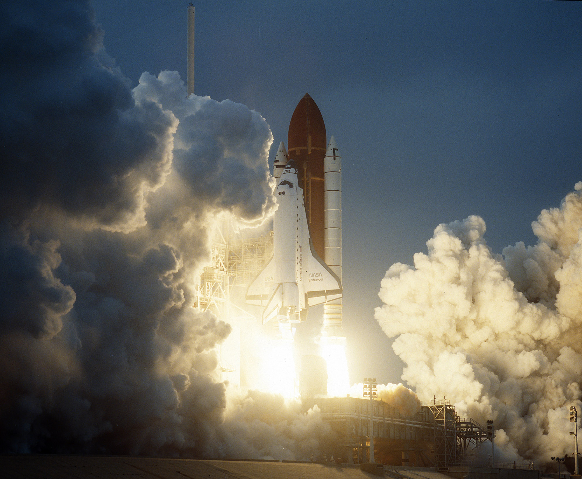 Launch of the maiden flight of Endeavour, STS-49 in May 1992.